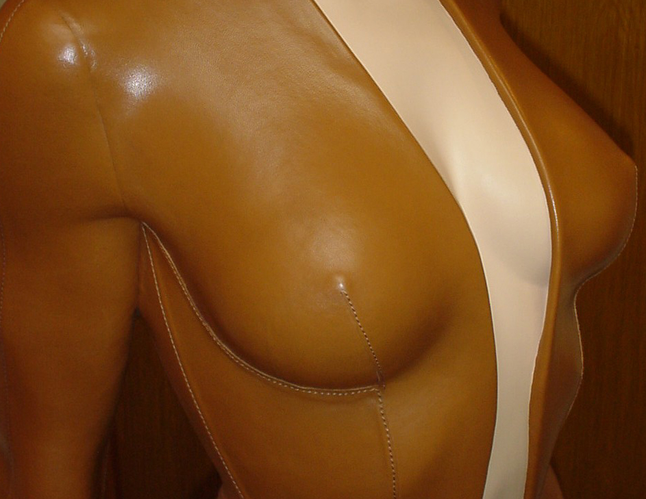 whitaker-malem-allen-jones-leather-art-sculpture